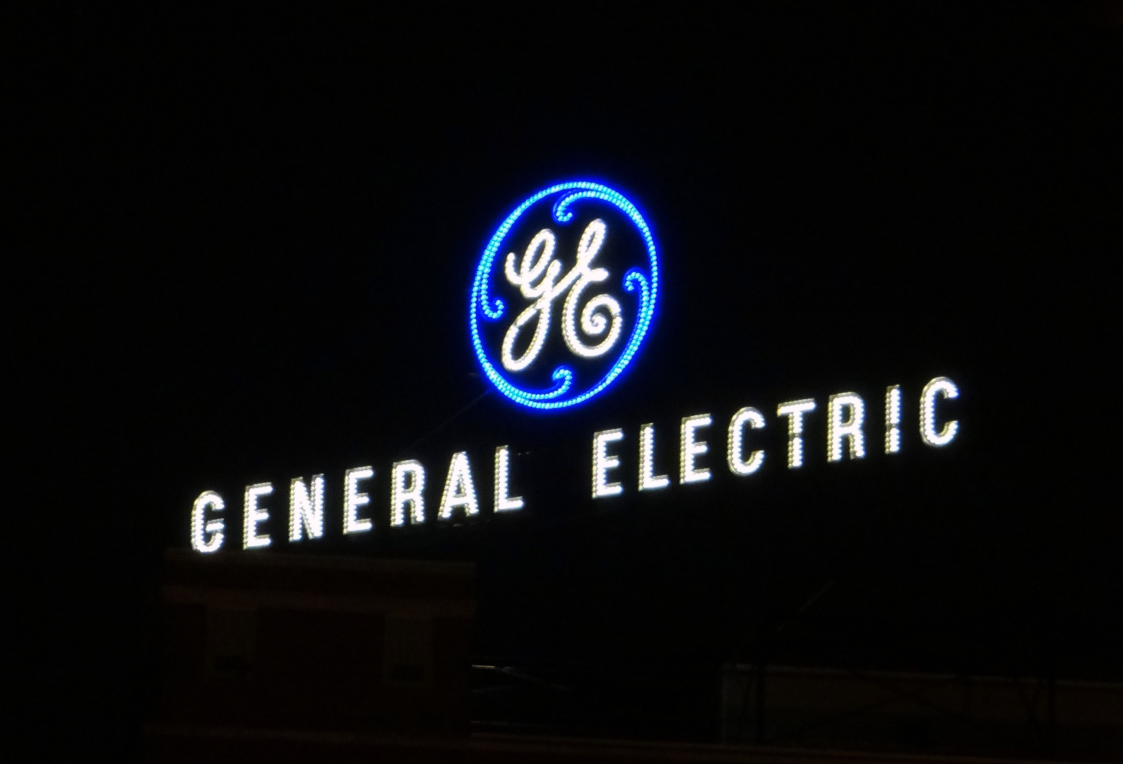 The iconic General Electric Sign in Fort Wayne, Indiana